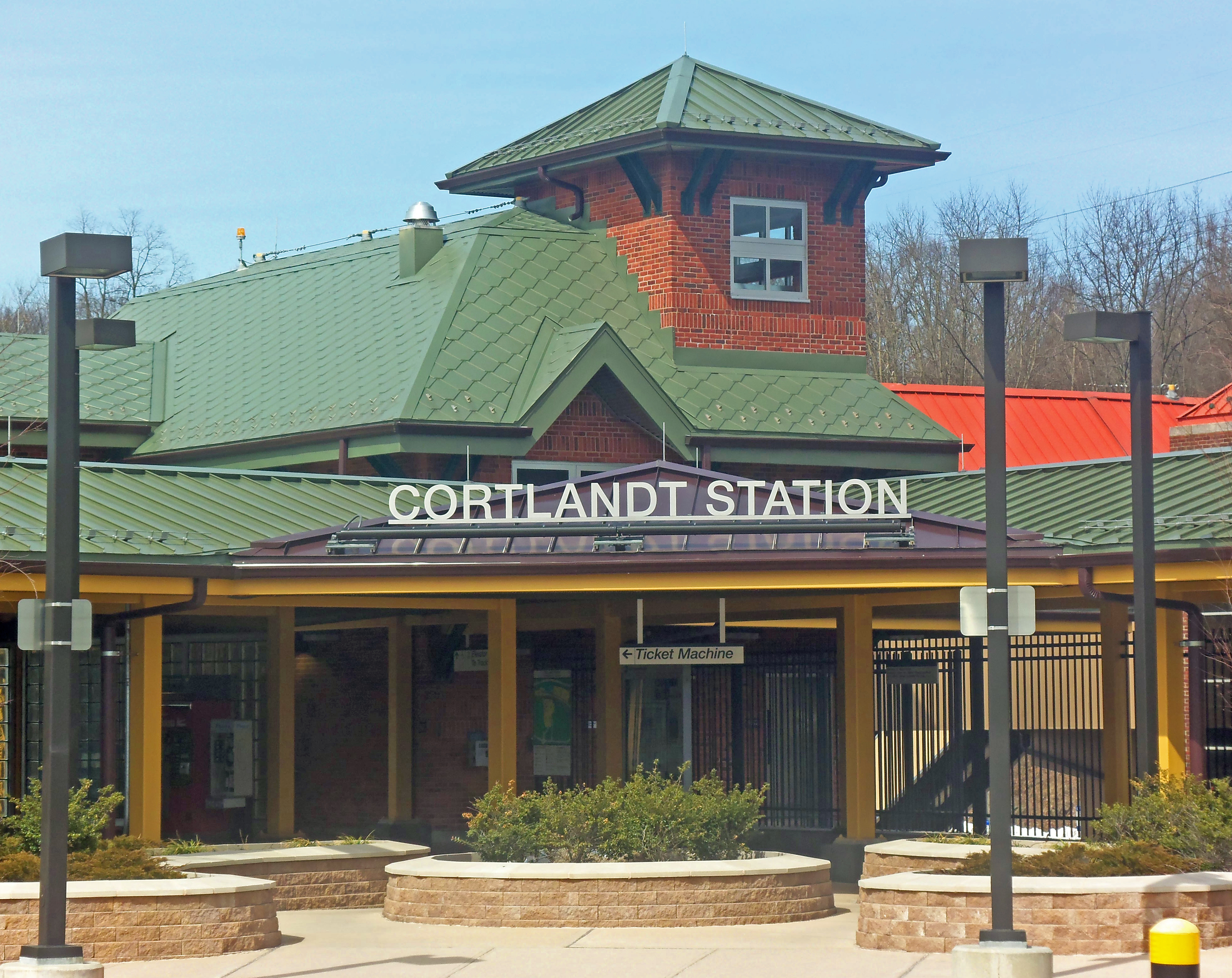 Newly constructed entrance on west side of Cortlandt station on Metro-North Hudson Line